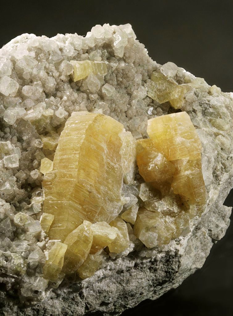 Weloganite Locality: Francon quarry, Montréal, Québec, Canada The largest xl is ~ 2.5 cm tall. Via Tony Gordian (1994). MOB coll.